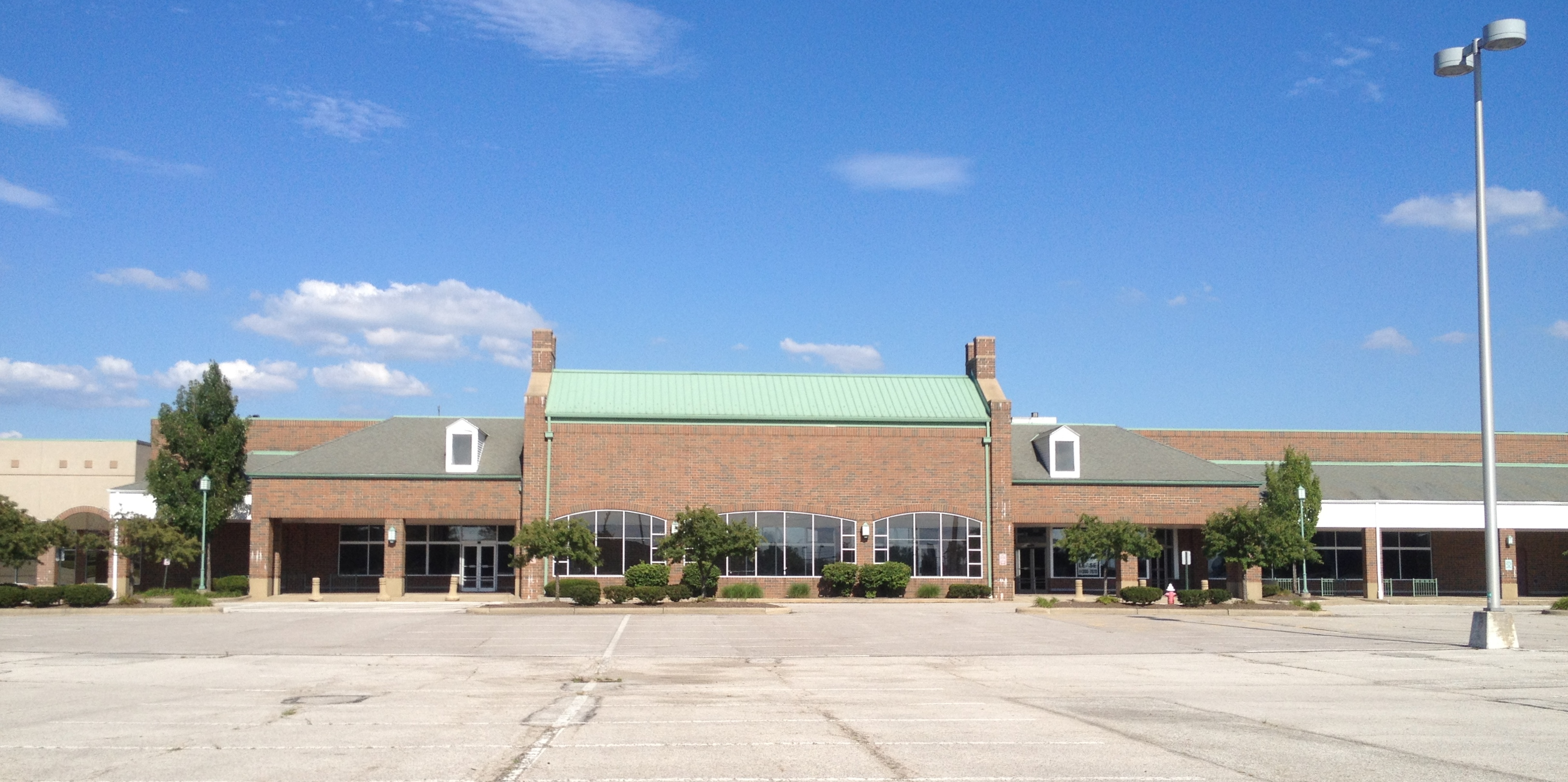 A closed Finast supermarket at Meadowbrook Market Square in Bedford, Ohio